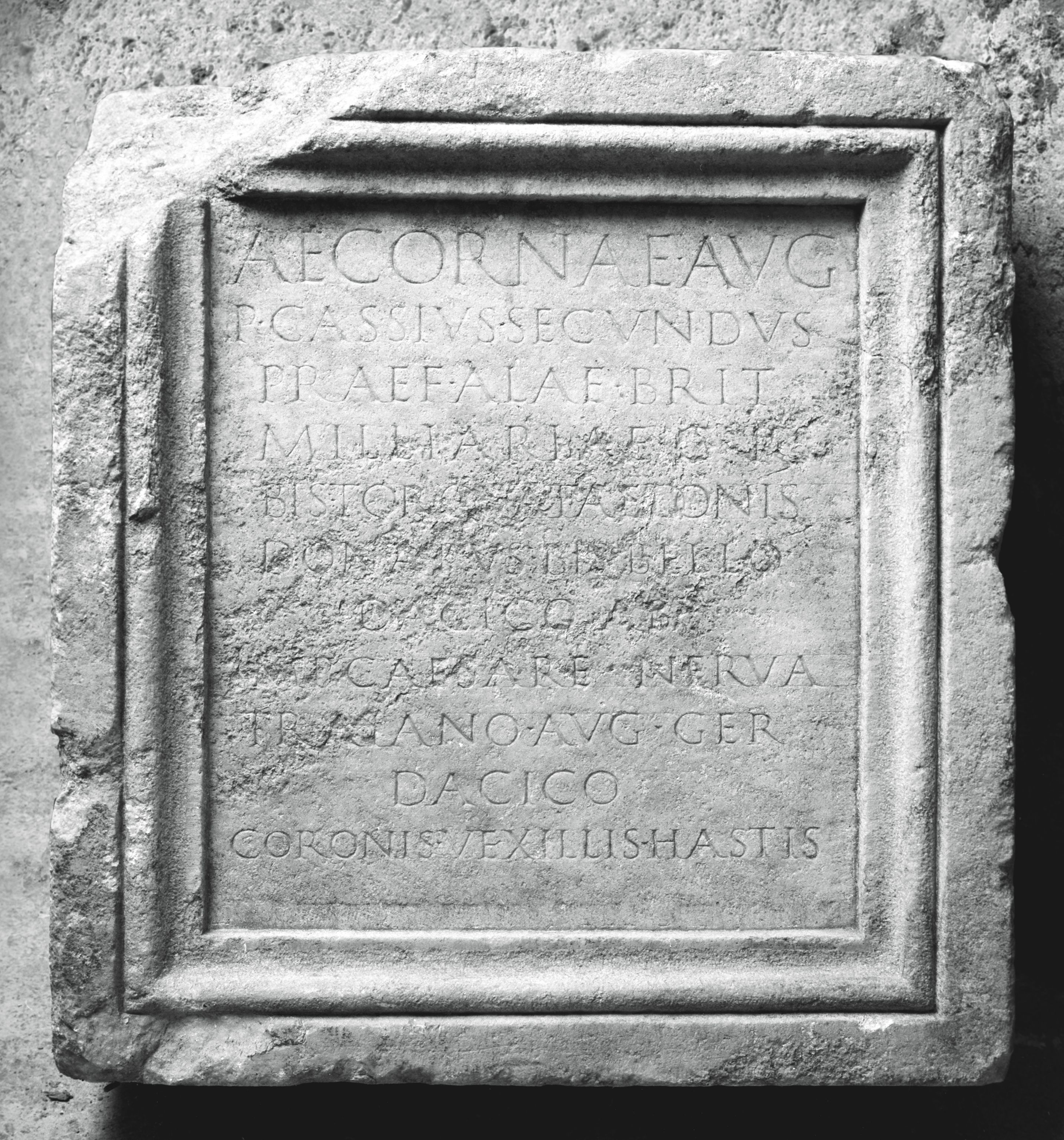 Emona and the Ljubljana Basin was particularly characterized by the goddess Ekvorna (Ekorna, Equrna). In this photo, an inscription showing a dedication on the stone, probably a pedestal for the statue of the goddess. The subject of the Museum and Galleries of Ljubljana.